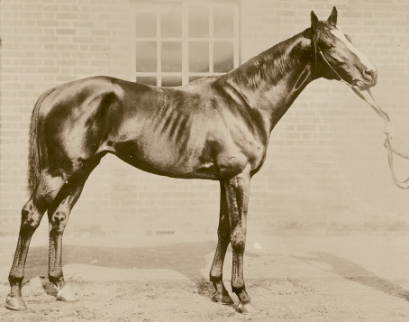 Flying Fox (1896–1911) was a British Thoroughbred racehorse who won the 1899 English Triple Crown.